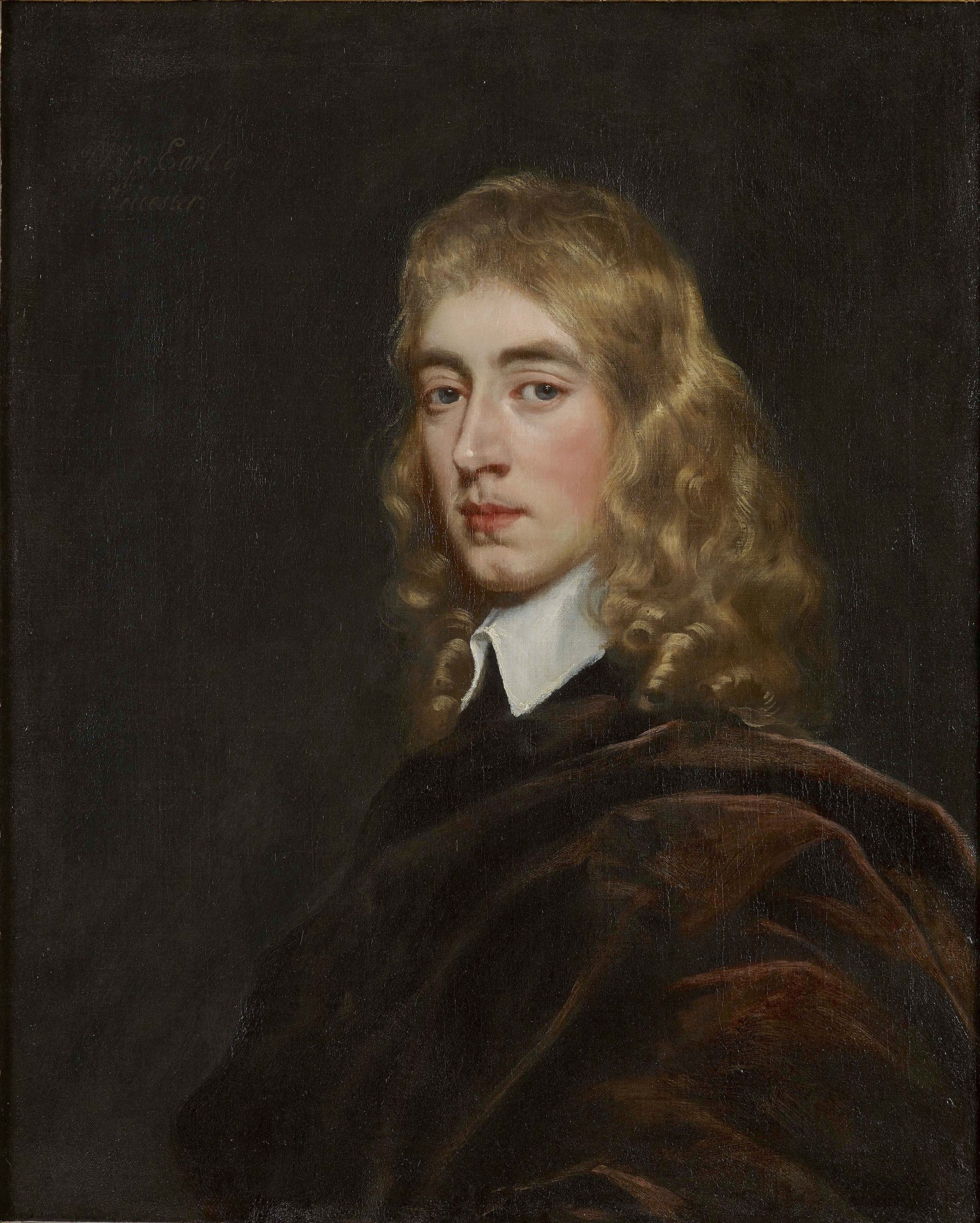 Earl of Leicester